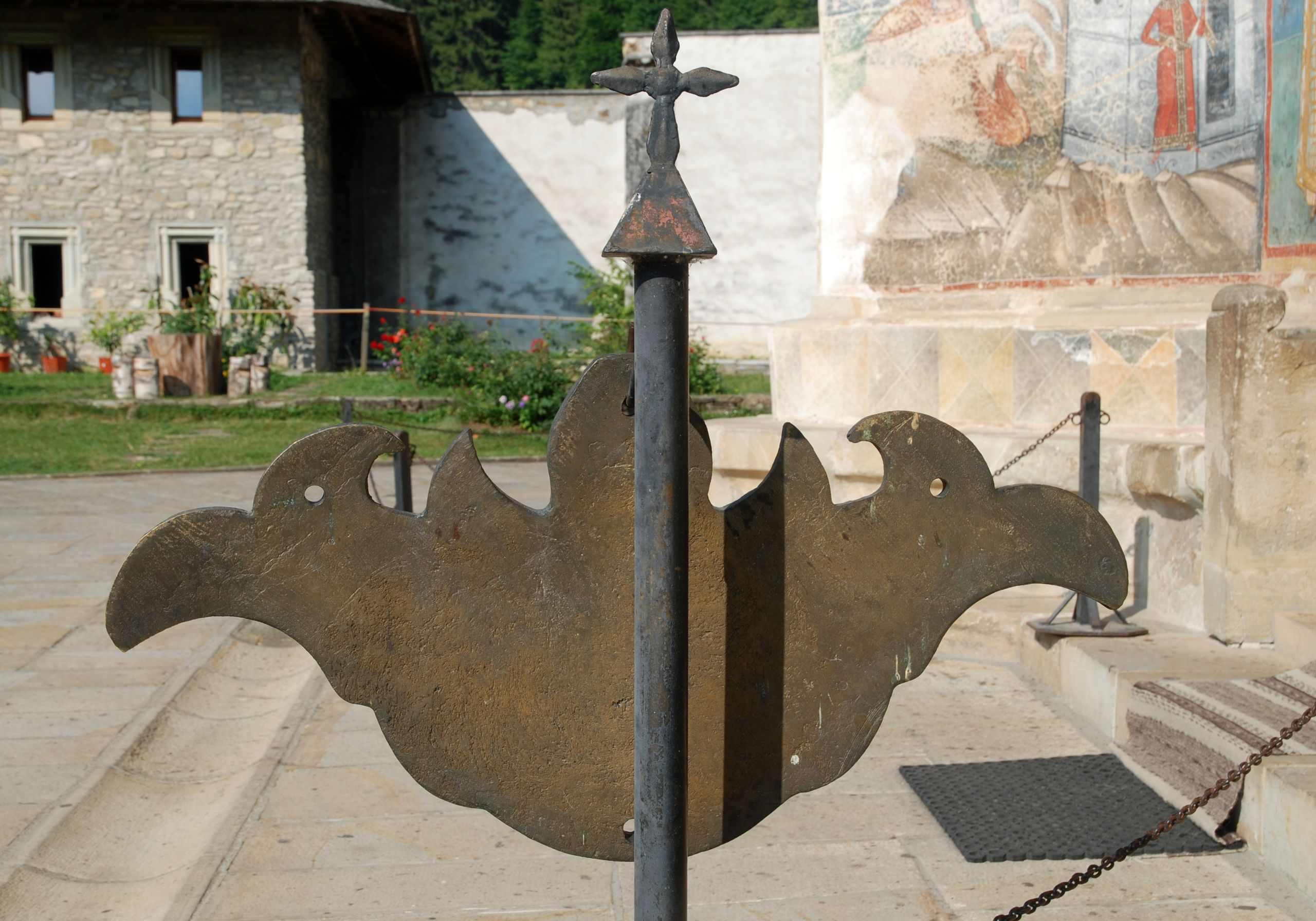 Toaca at Voronet Monastery